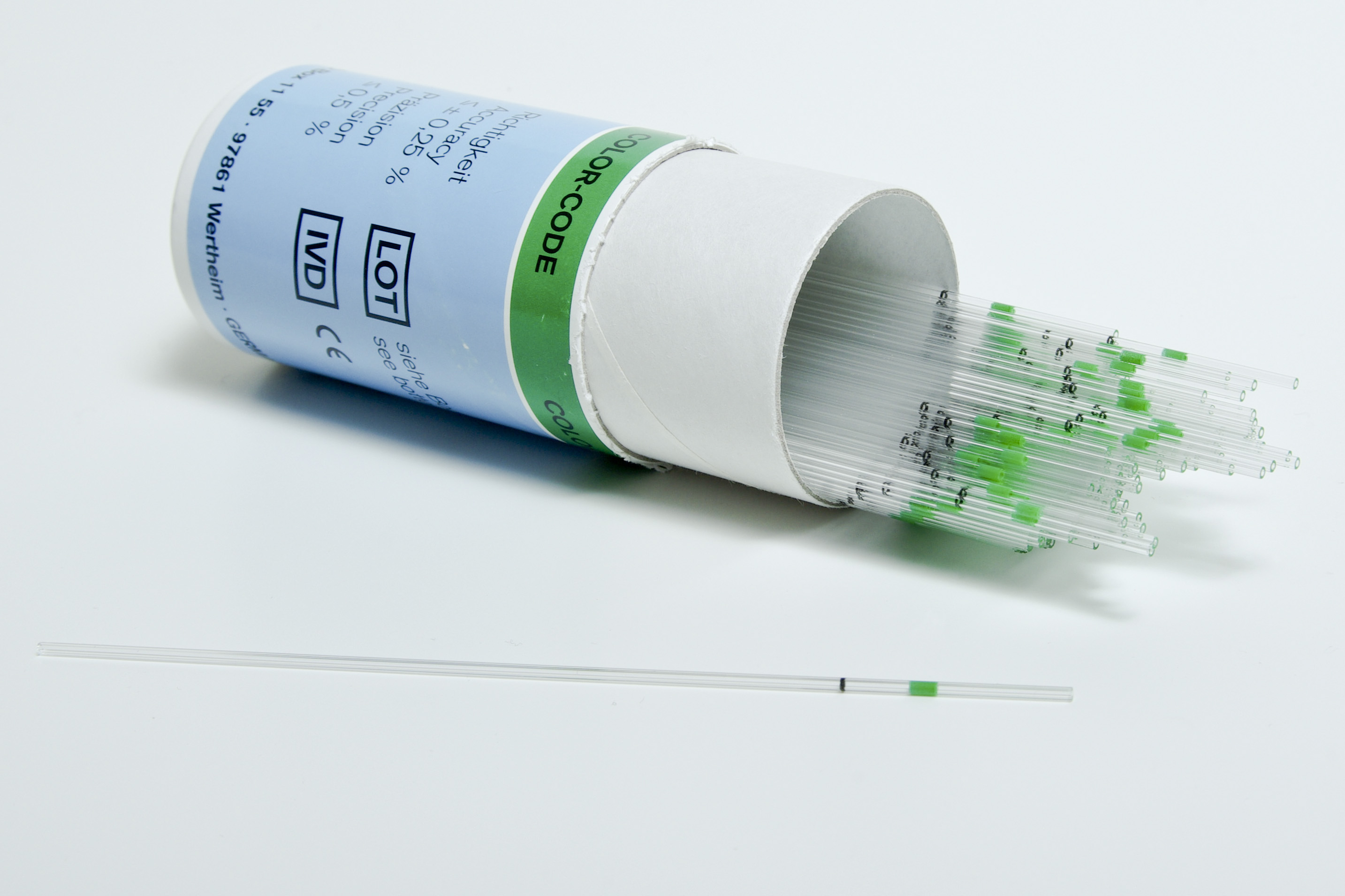 A box of 50ul glass capillaries for precise pipetting